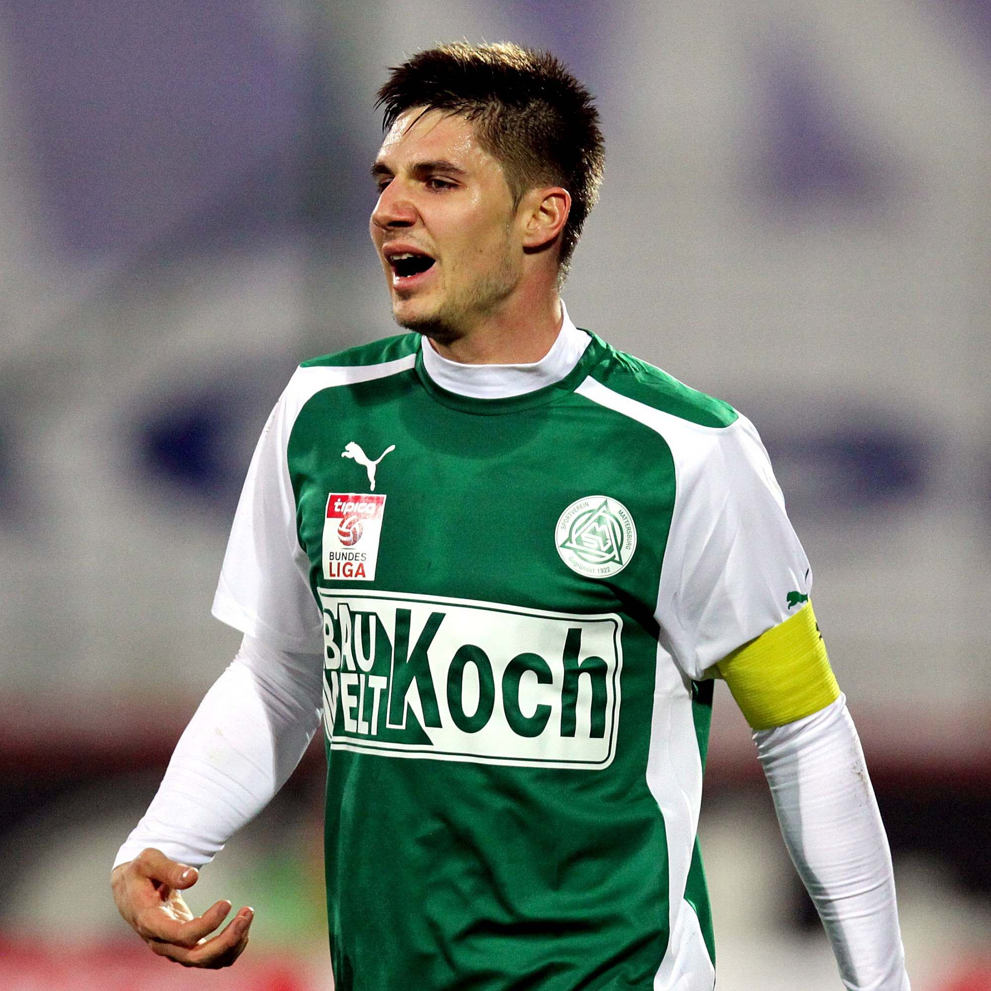 Match of the Austrian Football Bundesliga – FC Admira Wacker Mödling (red shirts) vs. SV Mattersburg (green-white shirts) 1-1 (1-1) on 2015-12-12 in Bundesstadion Sudstadt – The photo shows Patrick Farkas.